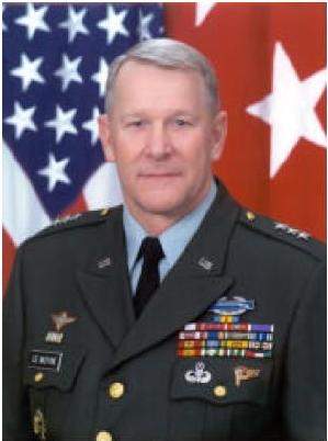 Lt. Gen. LeMoyne